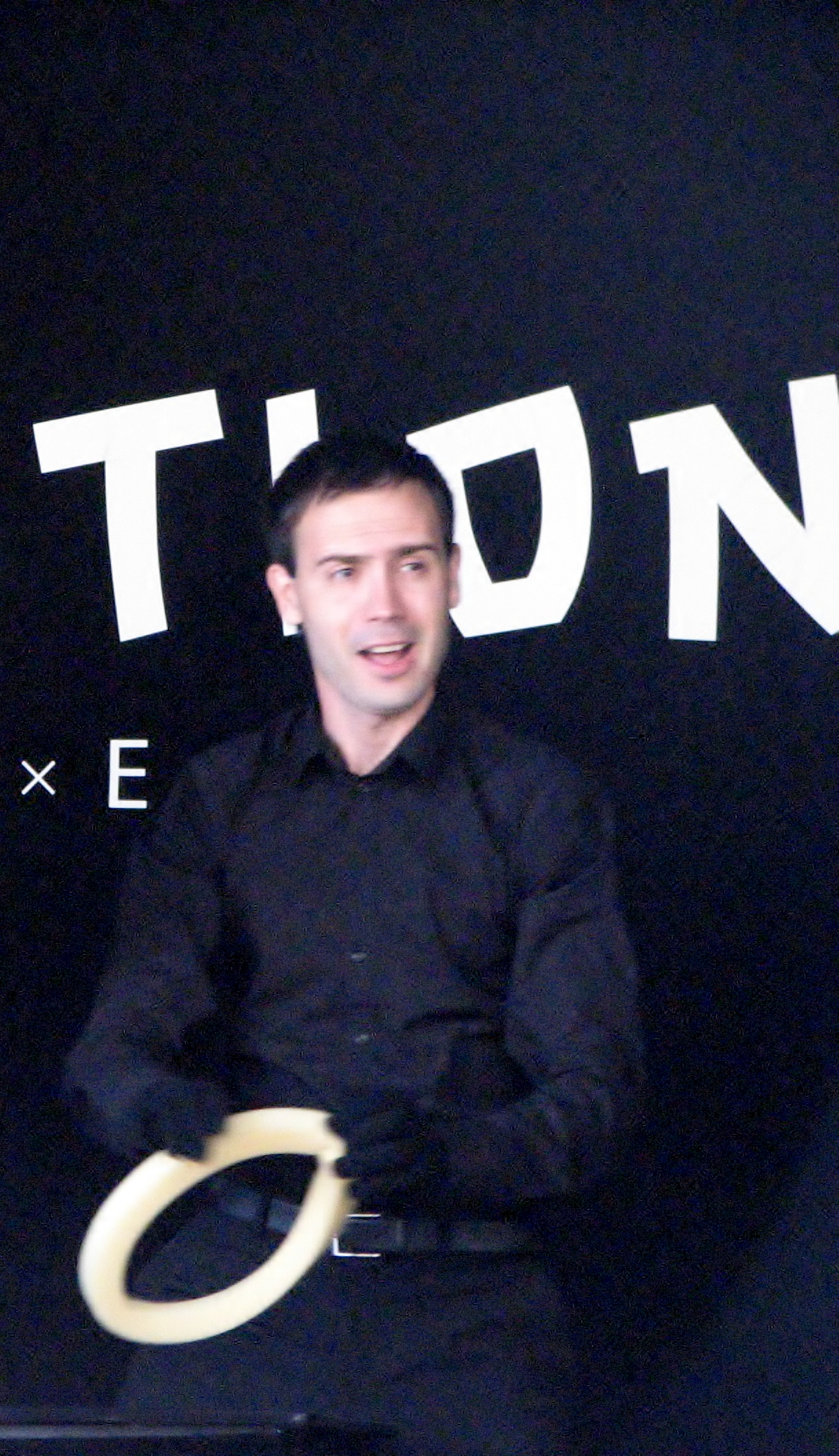 Estonian actor Jevgeni Moissejenko (Moiseenko) performing in Bastion garden